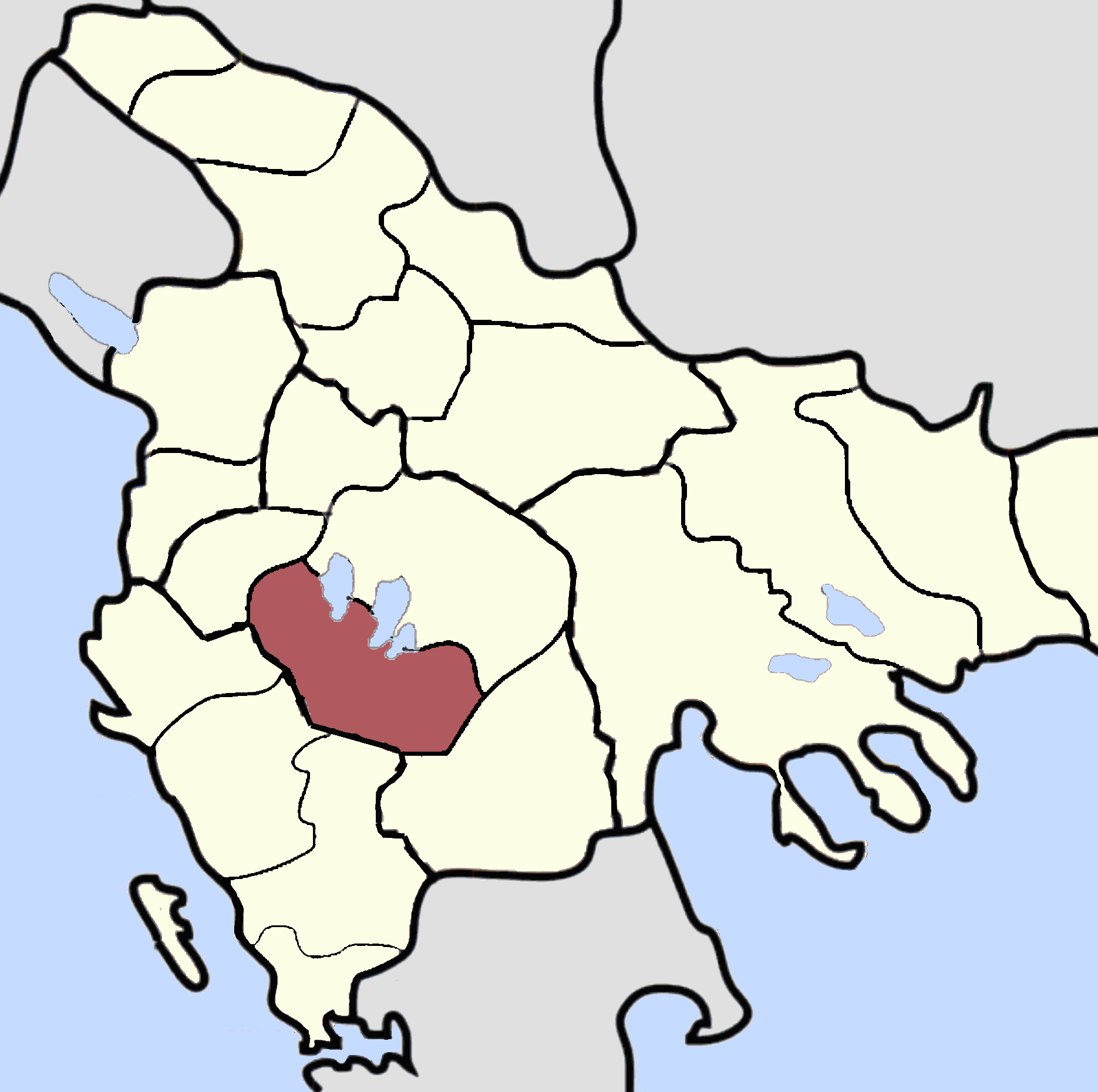 XY Sanjak, Ottoman Empire (late 19th century). Source: The Crescent and the Eagle- Ottoman Rule, Islam and the Albanians, 1874-1913 at Google Books By George Gawrych